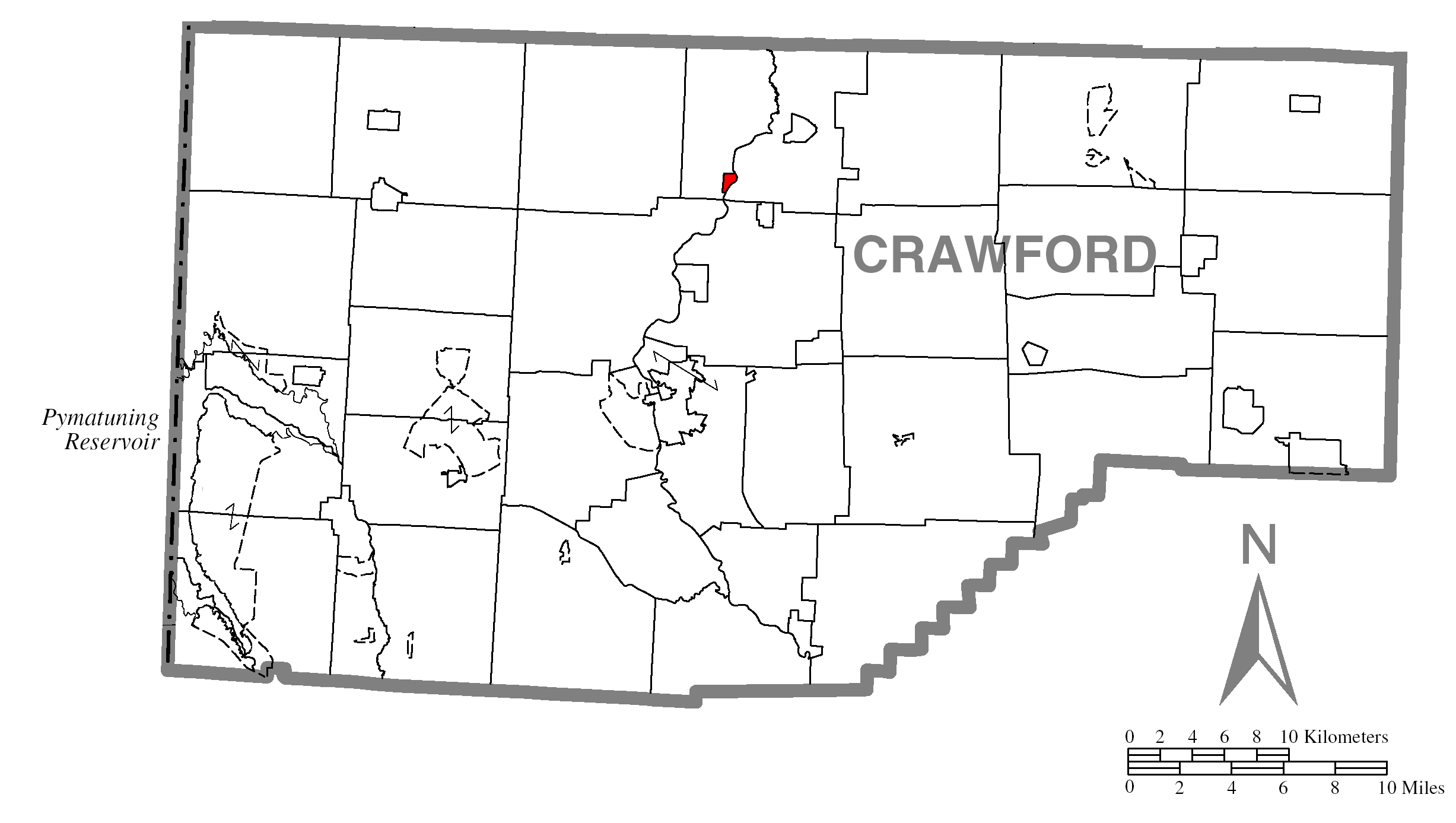 Map of Crawford County higlighting Venango.